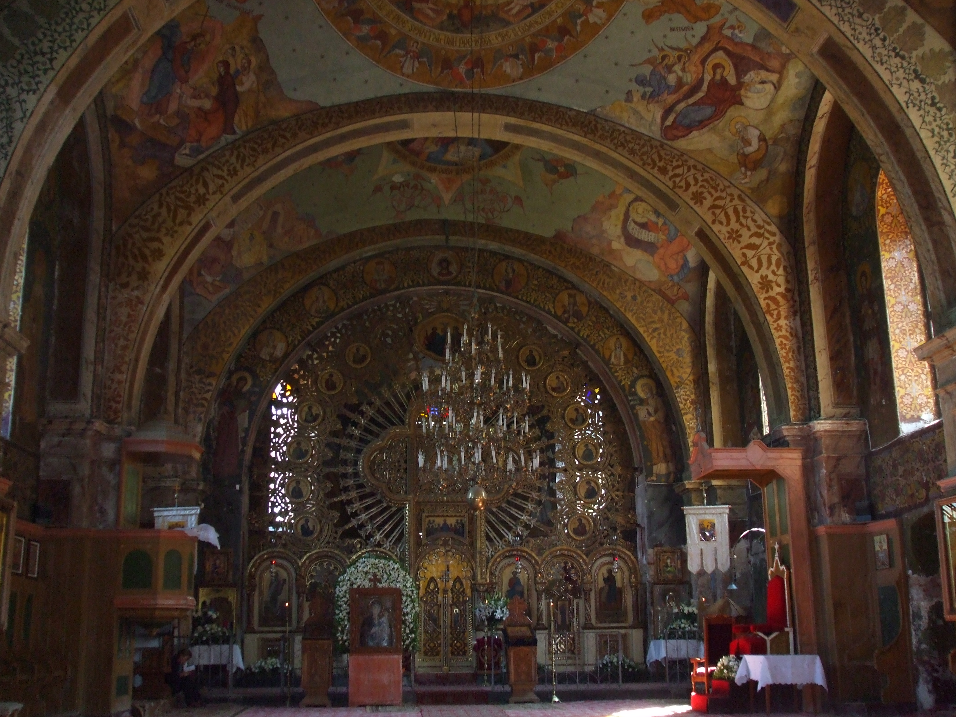 interior of the bigger church, Nicula Monastery